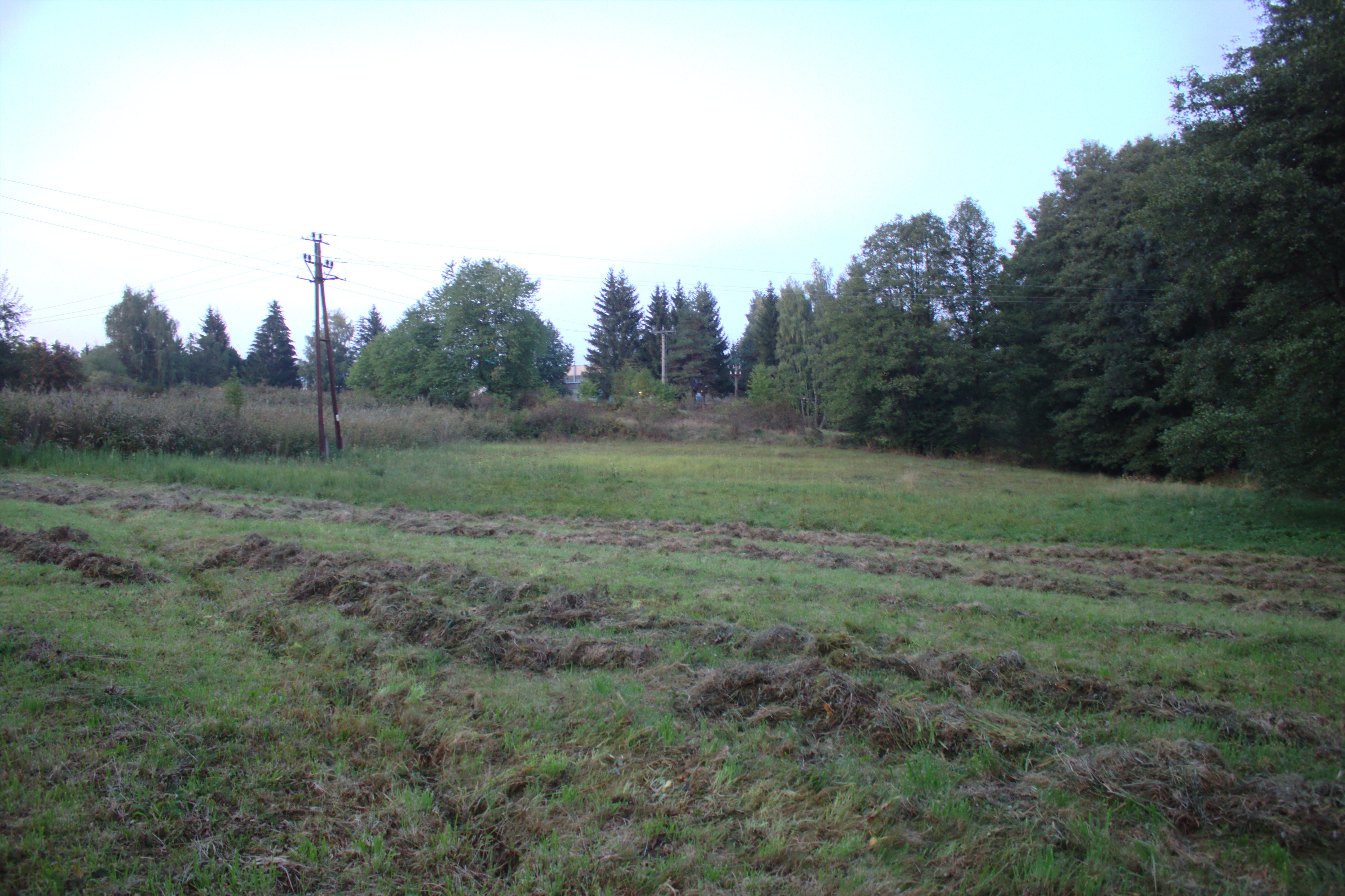 “U Bezděkova“ natural monument near Nové Město na Moravě, CZ Project: Fotíme Česko